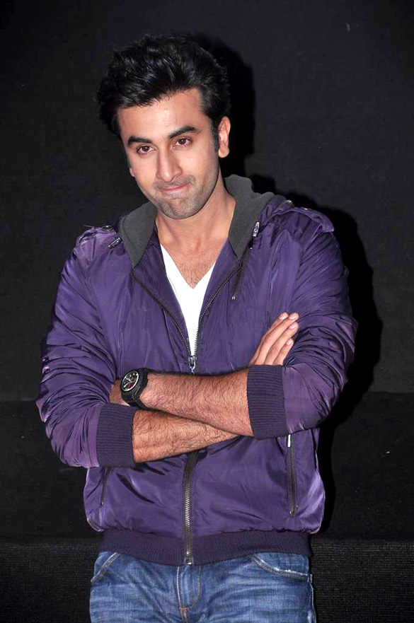 Ranbir Kapoor at the launch of 'Barfi!' promo